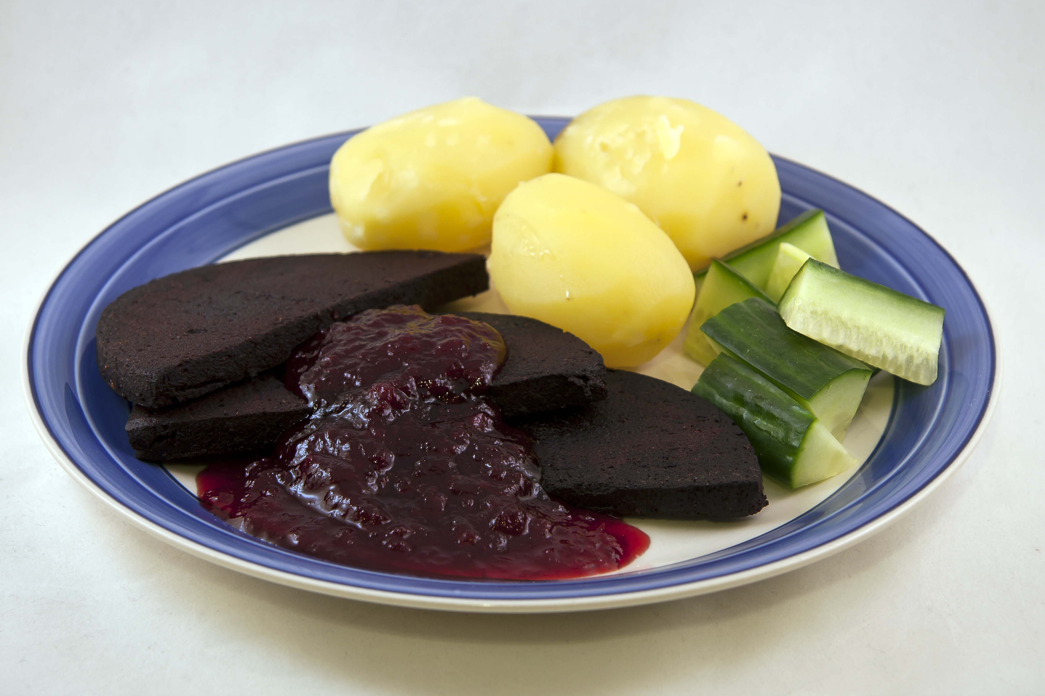 Swedish black pudding, blodpudding, served with boiled potatoes, lingonberry jam, and cucumber.